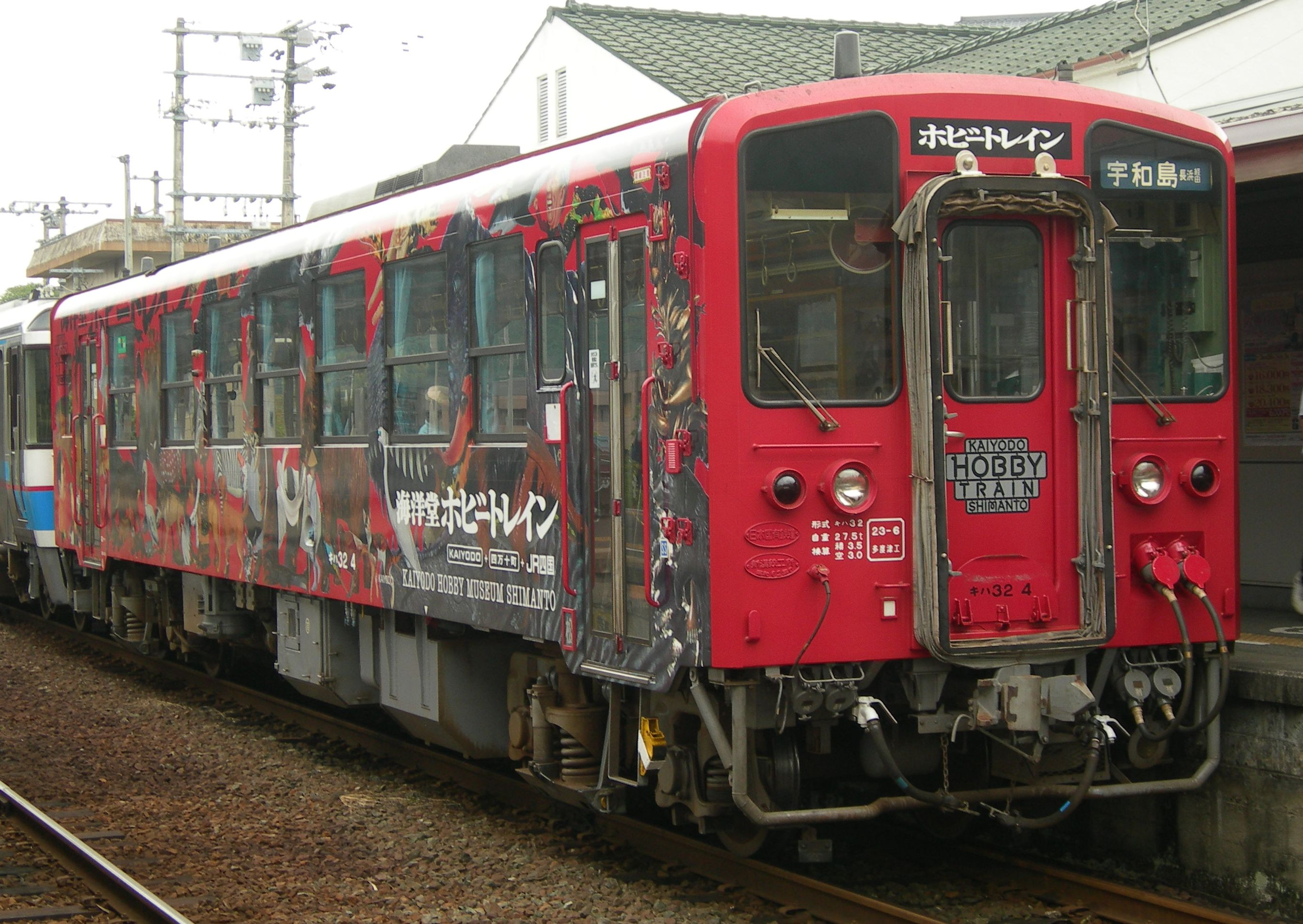 Kiha 32 4 DMU for the Kaiyodo Hobby Train at Iyo-Ozu Station